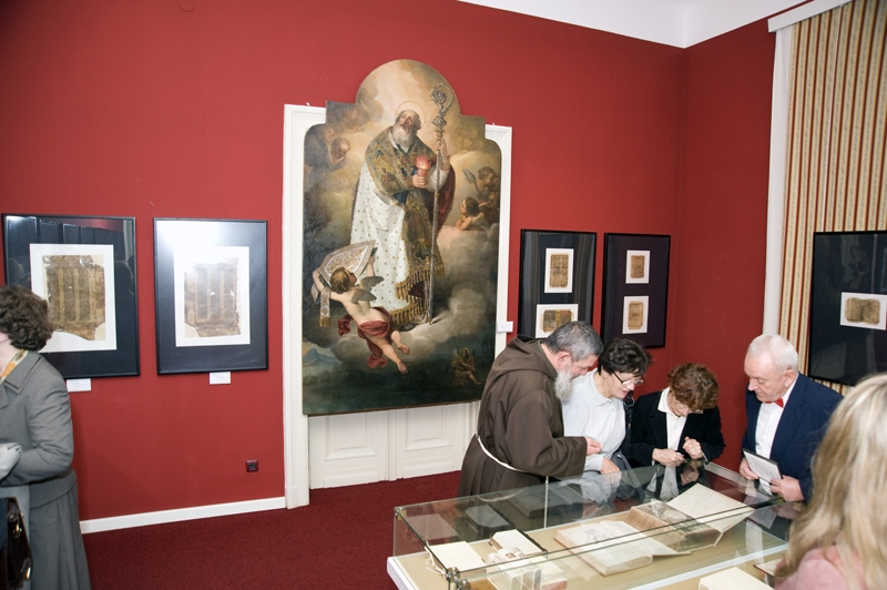 Celebration the 400th Anniversary of Capuchin Arrival in Croatia, or in 1610 established the first Capuchin monastery in Rijeka /translated by google/ Located in Maritime and History Museum of the Croatian Litoral Rijeka